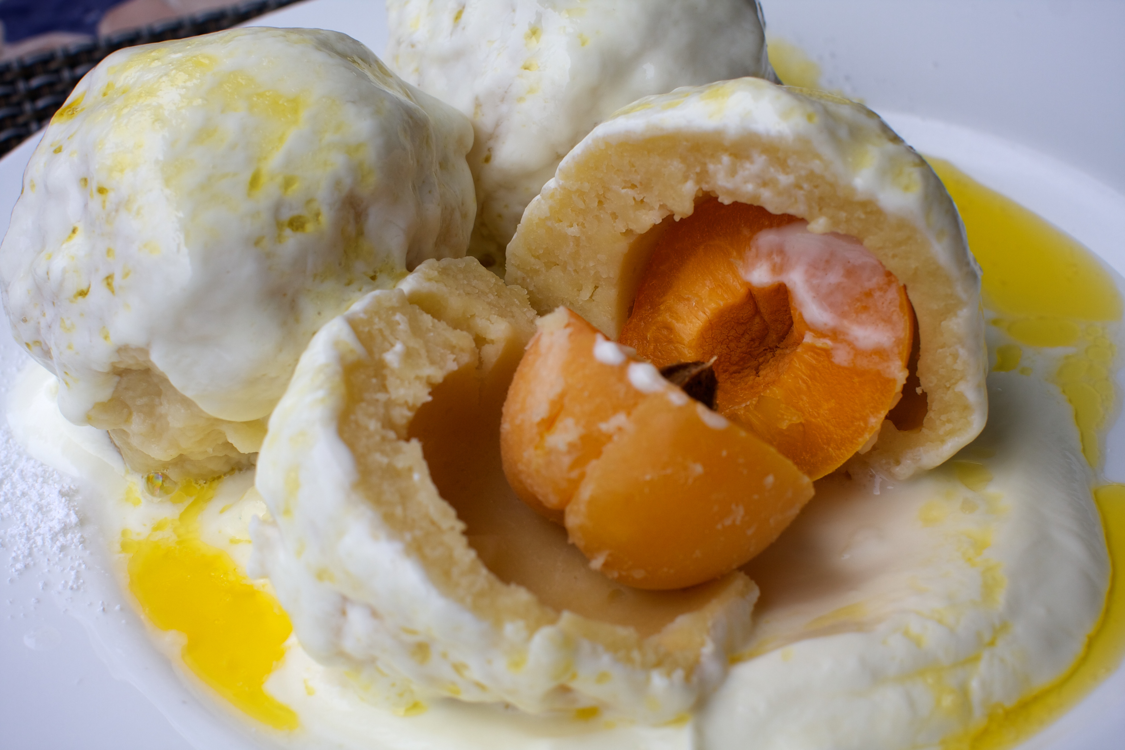 Apricot dumplings with quark, icing sugar and melted butter